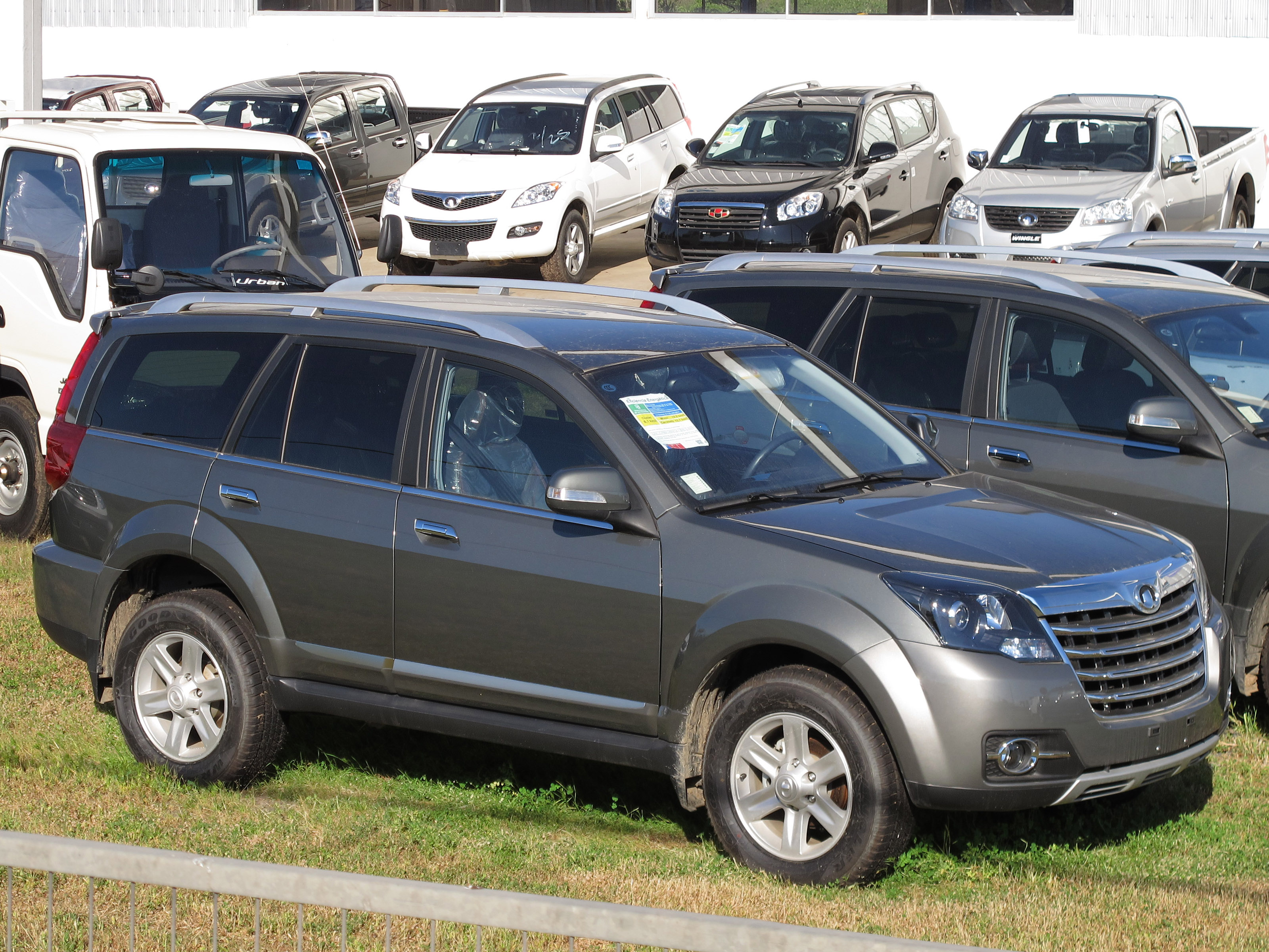 Great Wall Haval H3 2.0 LE 2015